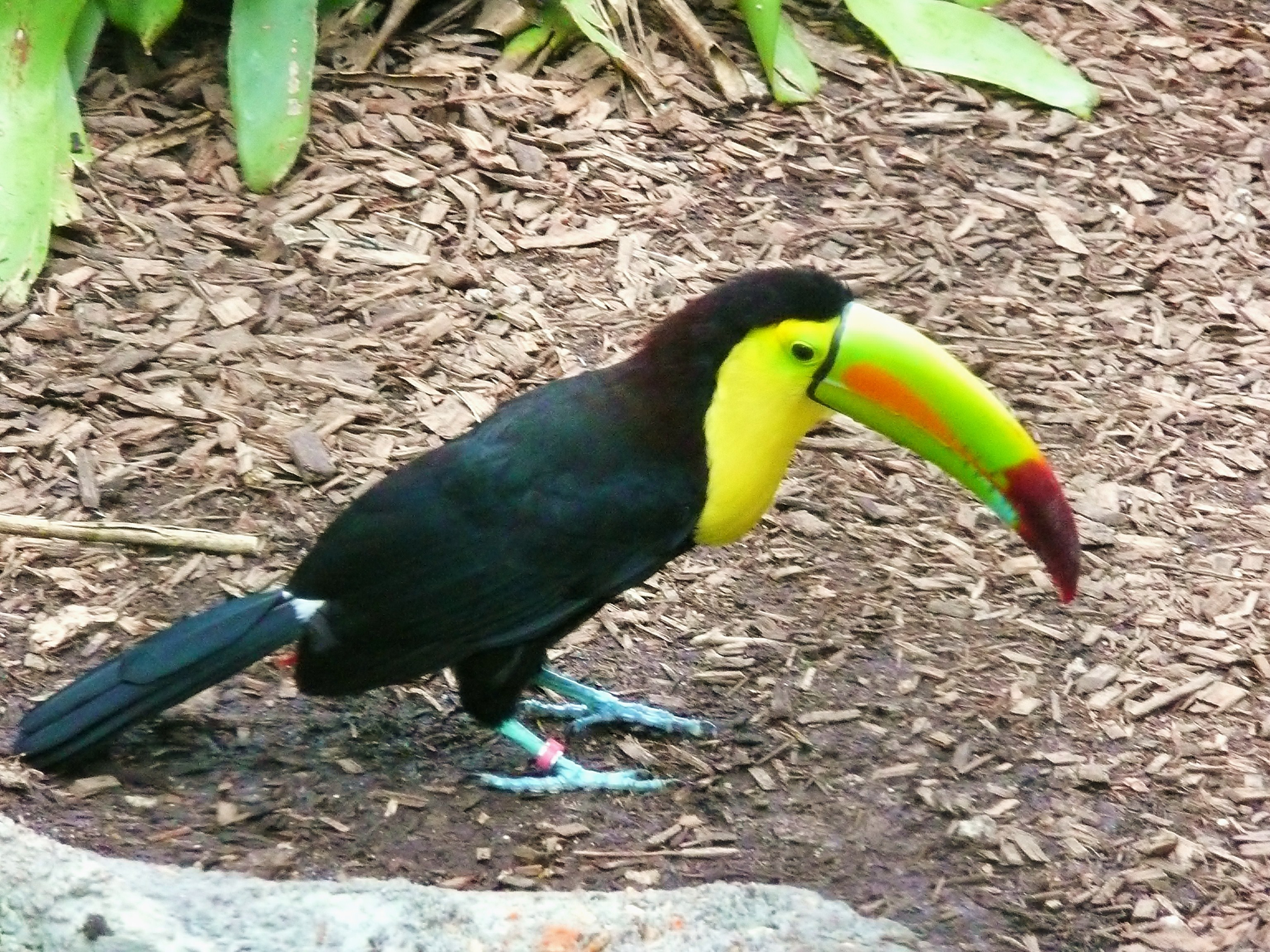 Digital photo taken by Marc Averette. Keel-billed Toucan at Miami's MetroZoo.